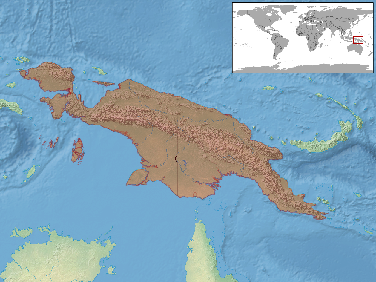 geographic distribution of Hypsilurus binotatus (Native: Indonesia (Irian Jaya, Maluku); Papua New Guinea)